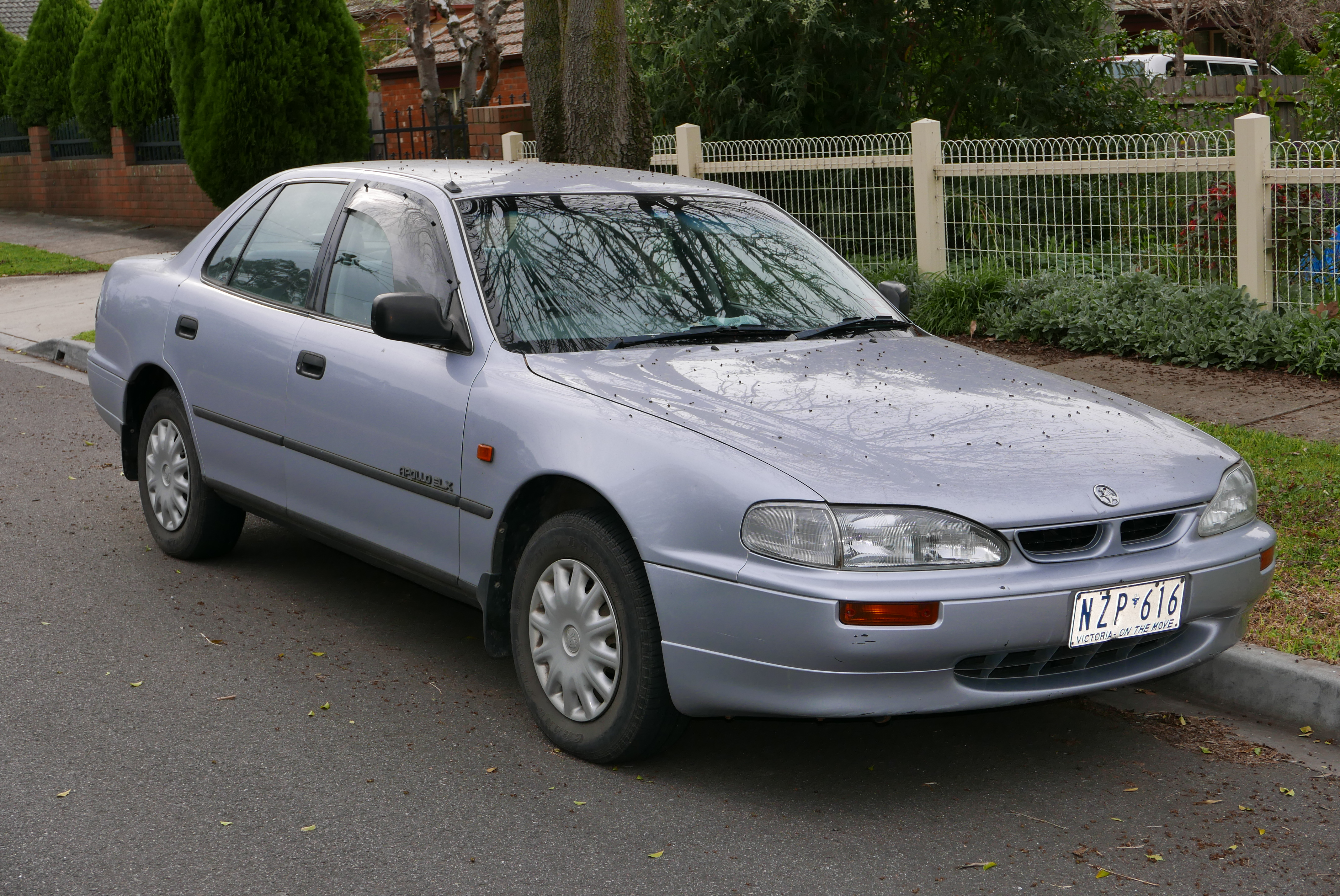 1996 Holden Apollo (JP) SLX sedan. Photographed in Ivanhoe, Victoria, Australia. Vehicle registration enquiry results Jurisdiction Victoria Registration NZP616 Chassis code 6T153SD1009413372 Engine code 5S4150028 Compliance date 1996-10 Year of manufacture 1996